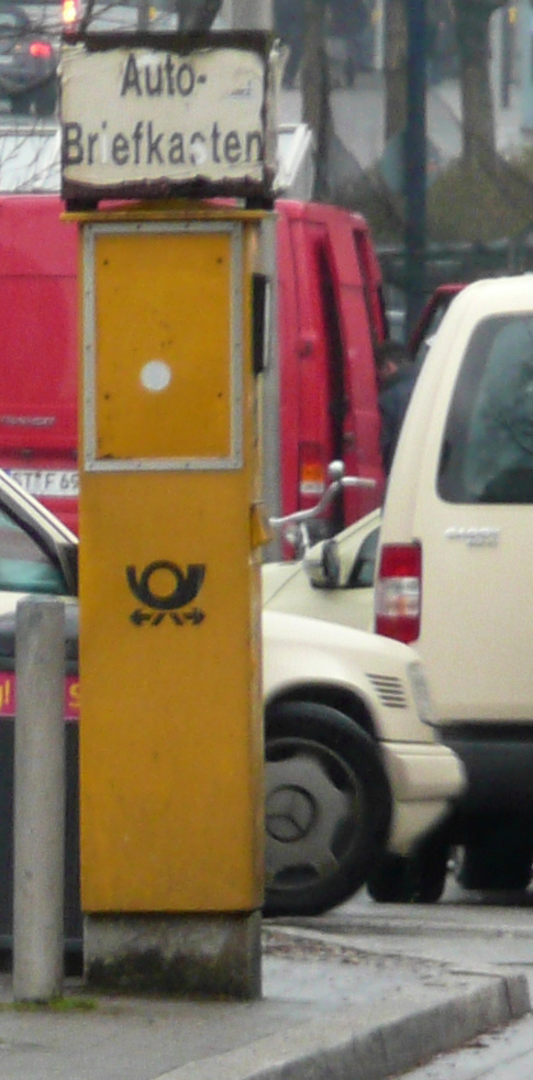 Drive-Thru Mailbox at Dortmund central station